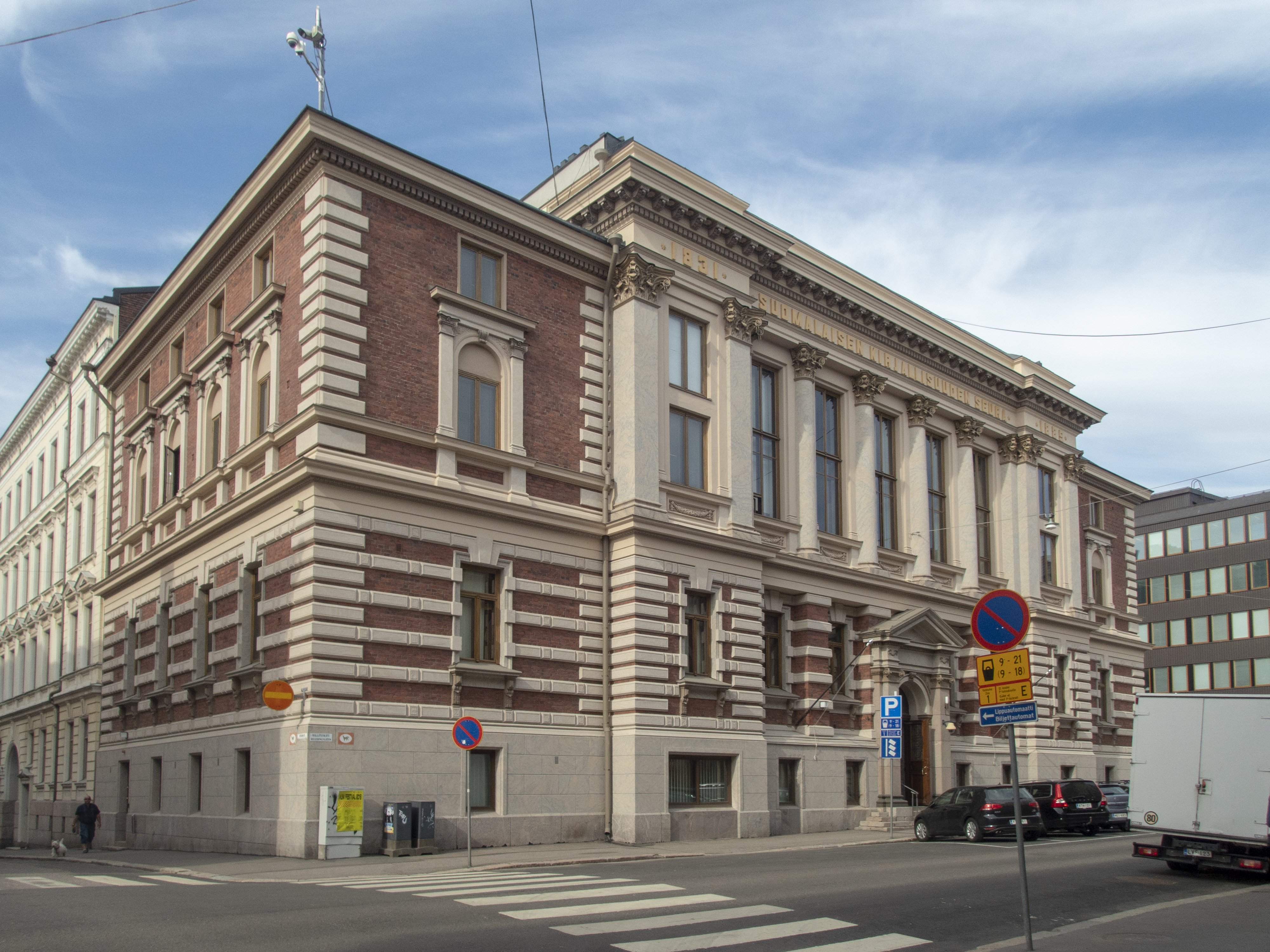 Finnish Literature Society. Hallituskatu 1 Helsinki. Built in 1888. Architect: Sebastian Gripenberg